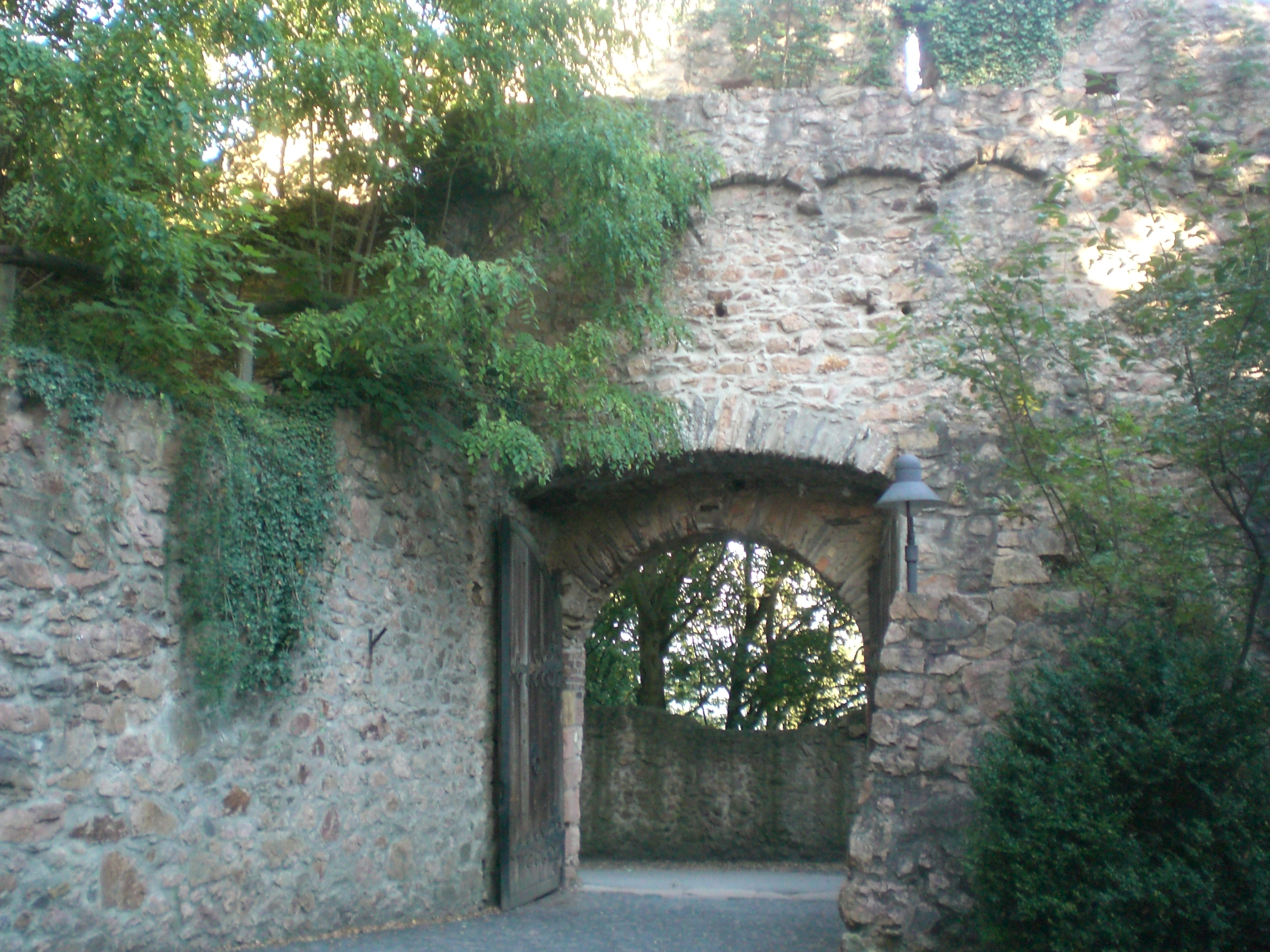 Auerbach Castle in Bensheim, Germany